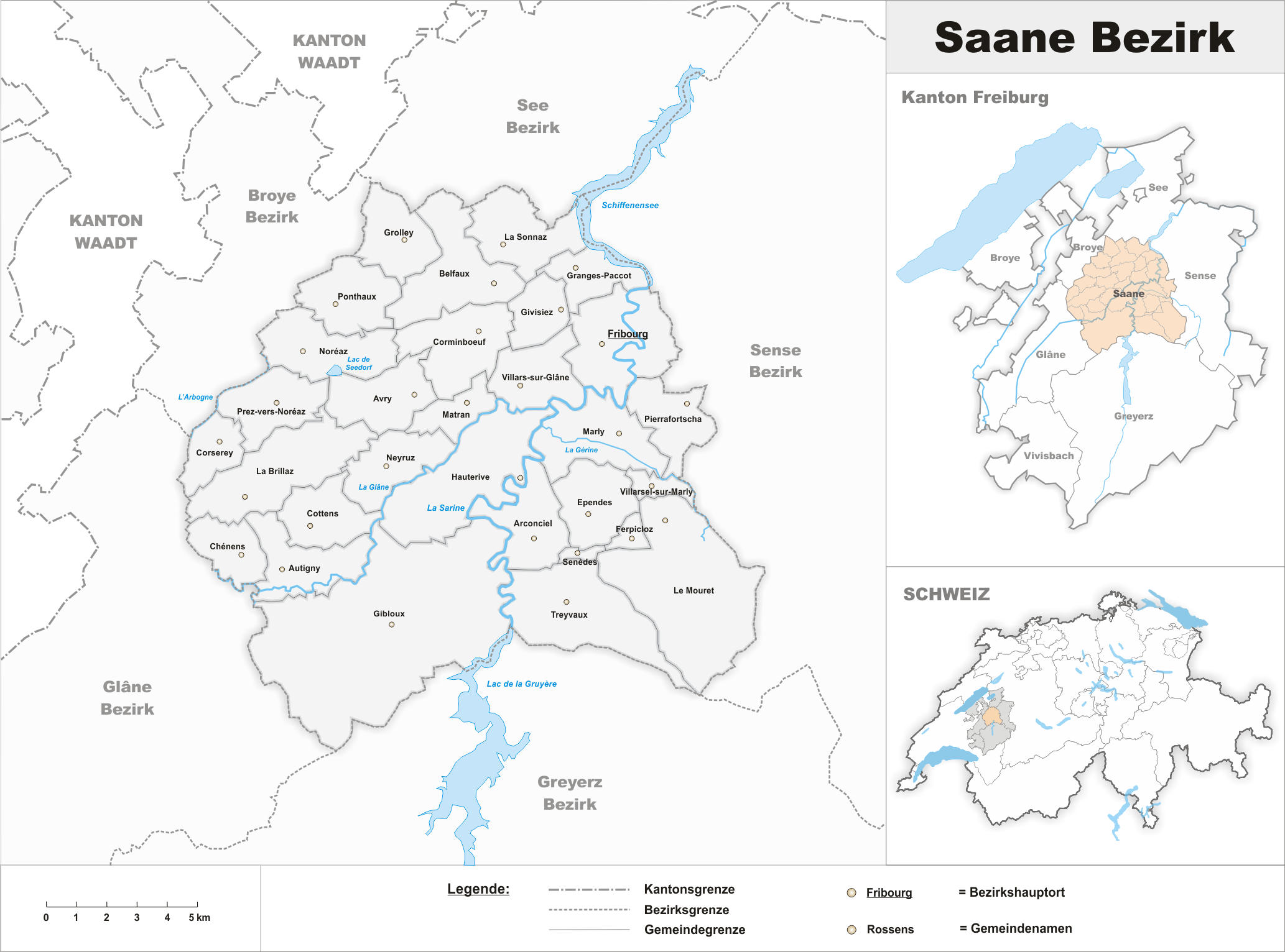 Municipality in the District of Saane